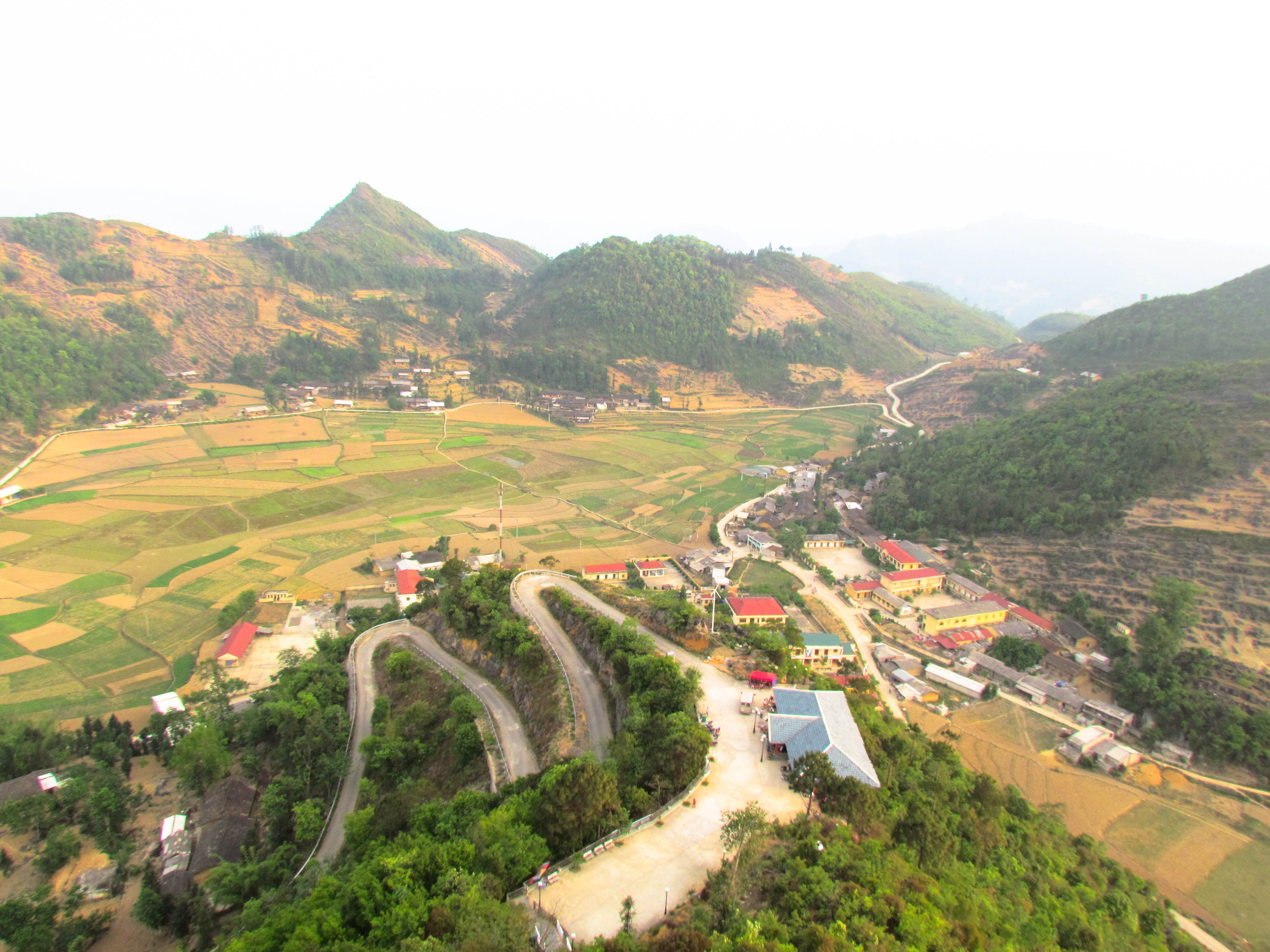 Beautiful Ha Giang